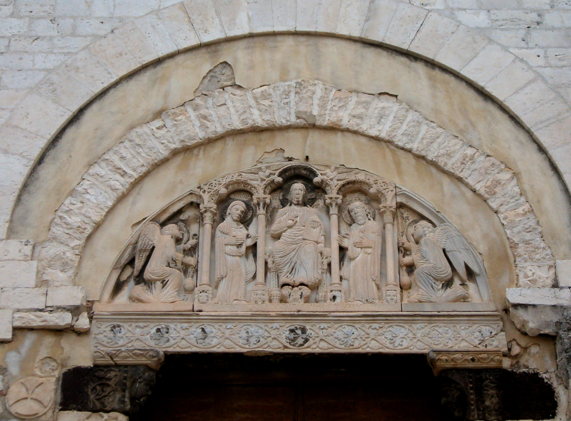 Detail of the bas-relief of the portal of the Sant'Andrea Church in Barletta (Apulia, Italy), 11th century-13th century.